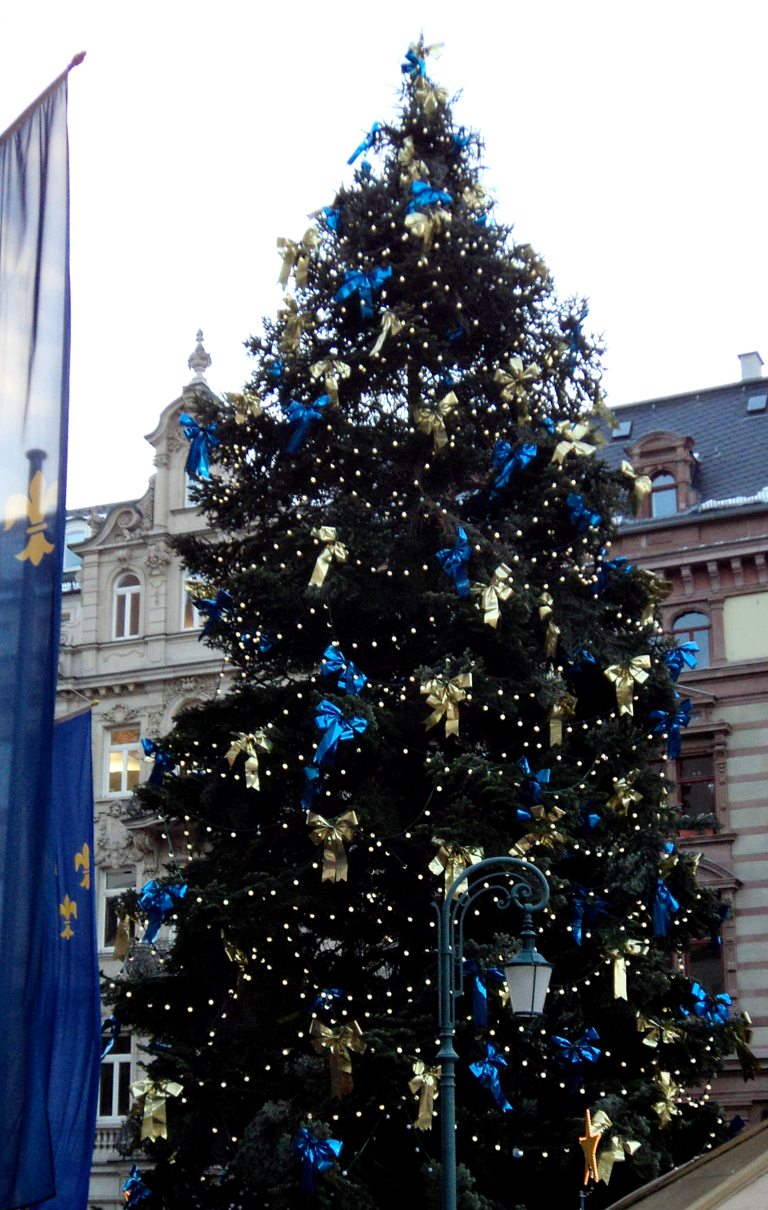 Christmas tree on "Twinkling Star Christmas Market" in Wiesbaden